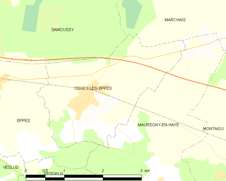 Map of French commune: Coucy-lès-Eppes Map commune FR insee code 02218.png